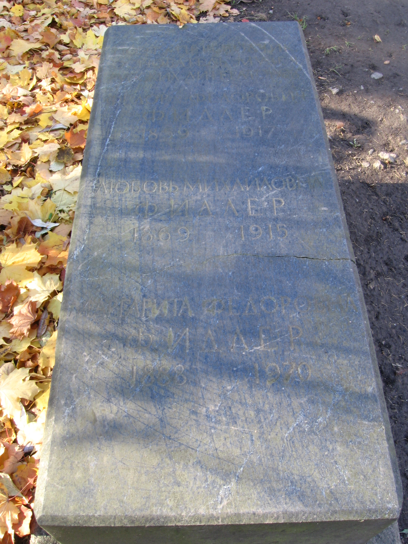 Grave of Fyodor Fiedler